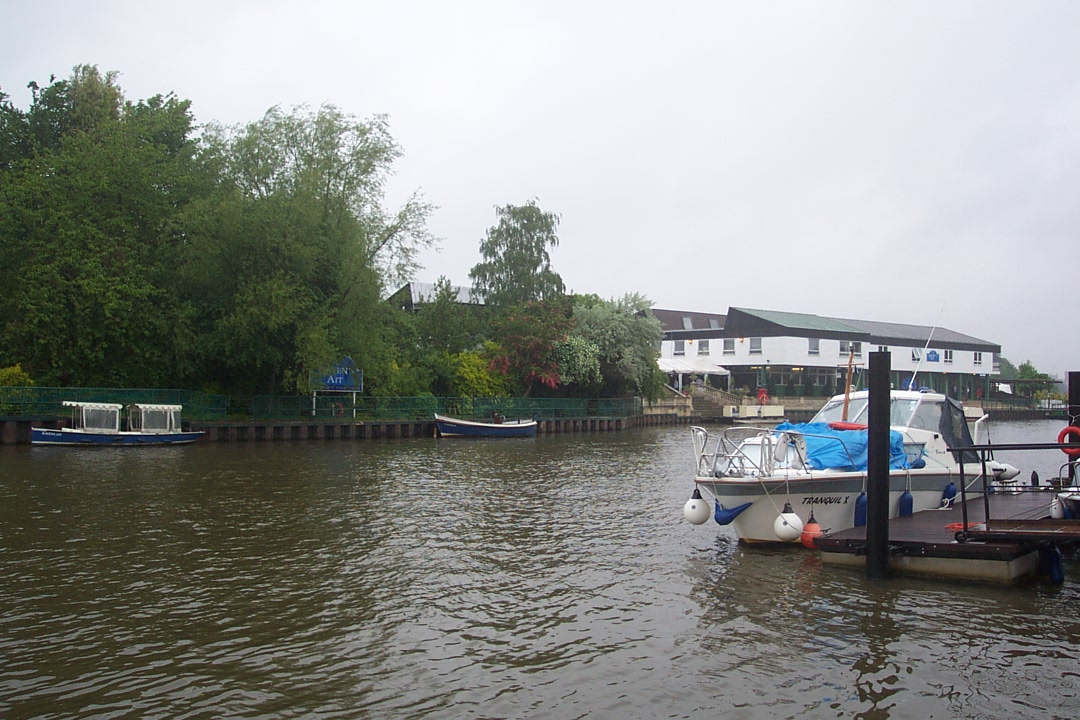 Raven's Ait at grid reference TQ175679 taken from the draw dock, looking downstream. The buildings were built in 1971.